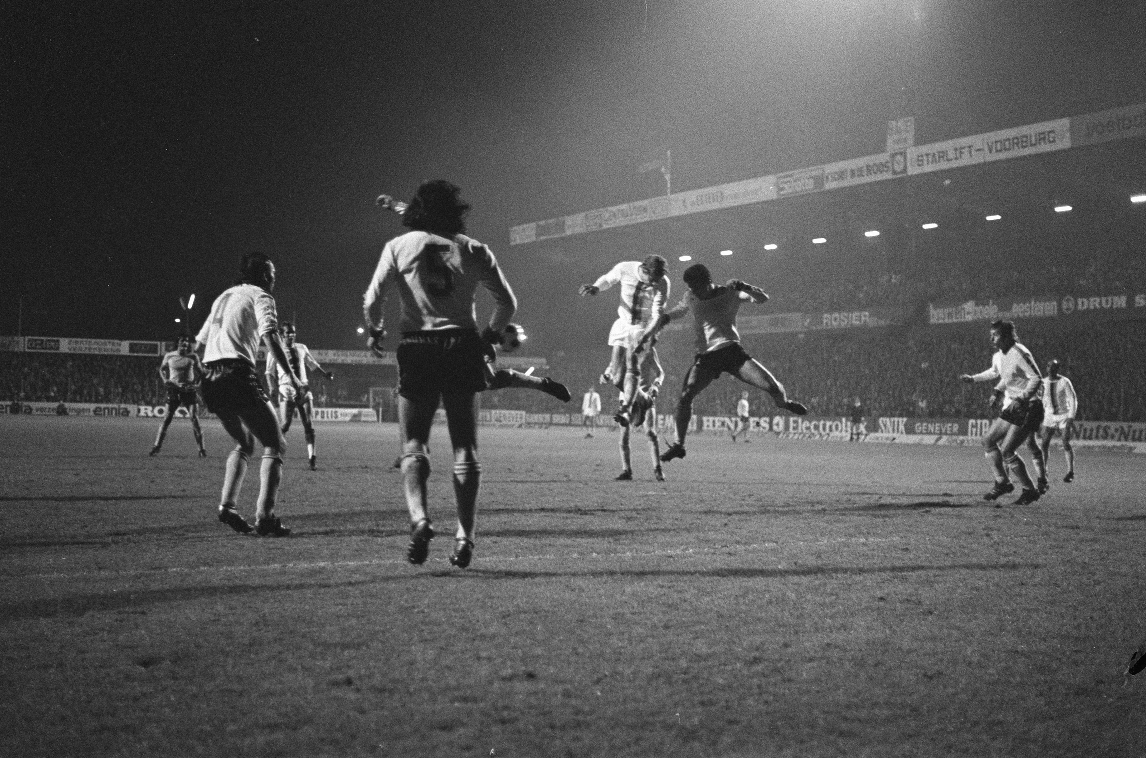 ADO Den Haag - RC Lens (3-2, UEFA Cup Winners' Cup), game moment.